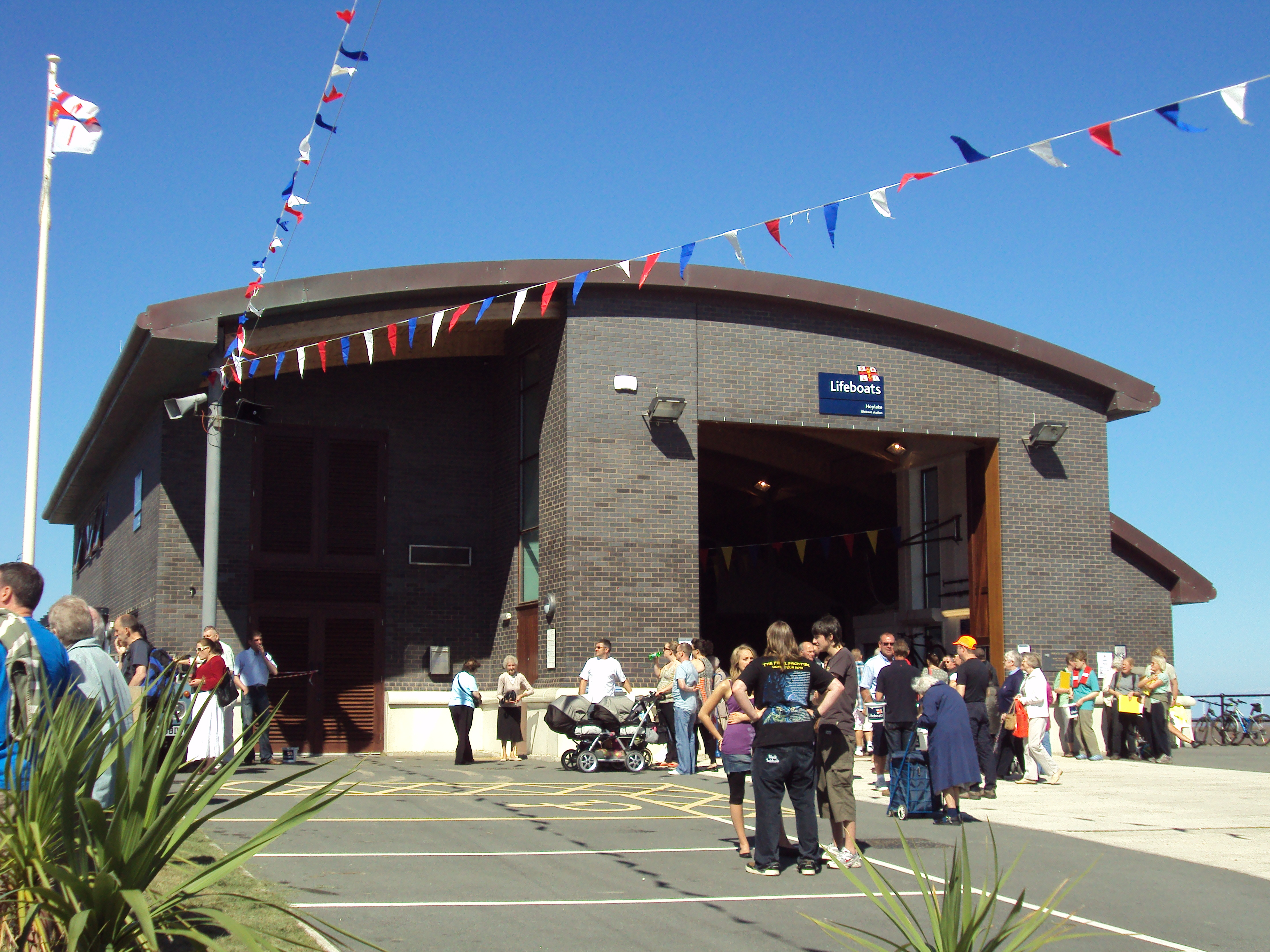 Hoylake lifeboat station. Photo taken during the Hoylake lifeboat open day on Bank Holiday Monday 30th August 2010, Wirral, Merseyside, England.